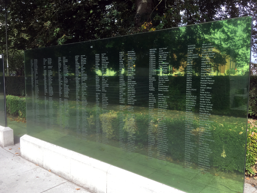 Southampton Cenotaph glass name panel